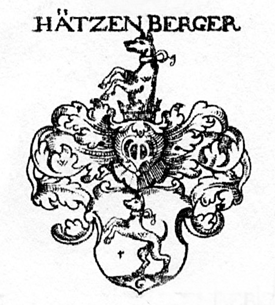 Coats of Arms of Haetzenberg